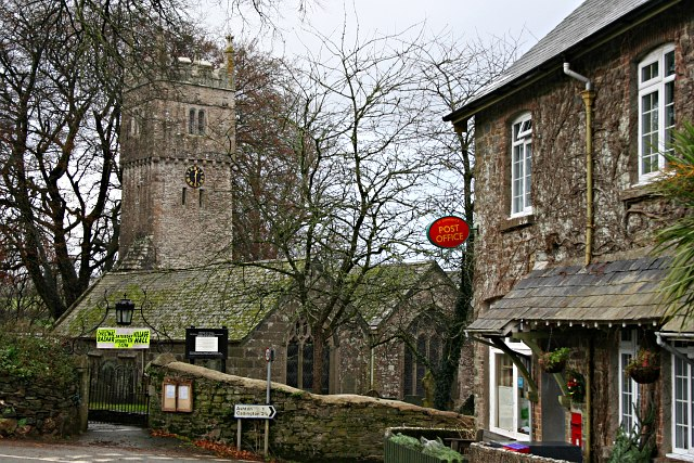 St Dominick Post Office and Church